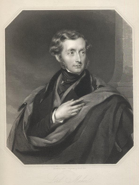 Philip Henry Stanhope, Lord Mahon" 1805-1875 Total size 13.1/2 x 19.1/2 inches (34 x 25 cm) Engraver William Holl 1807-1871 Drawn by Lucas Published by George Virtue circa 1846 for Portraits of Eminent Conservatives & Statesmen